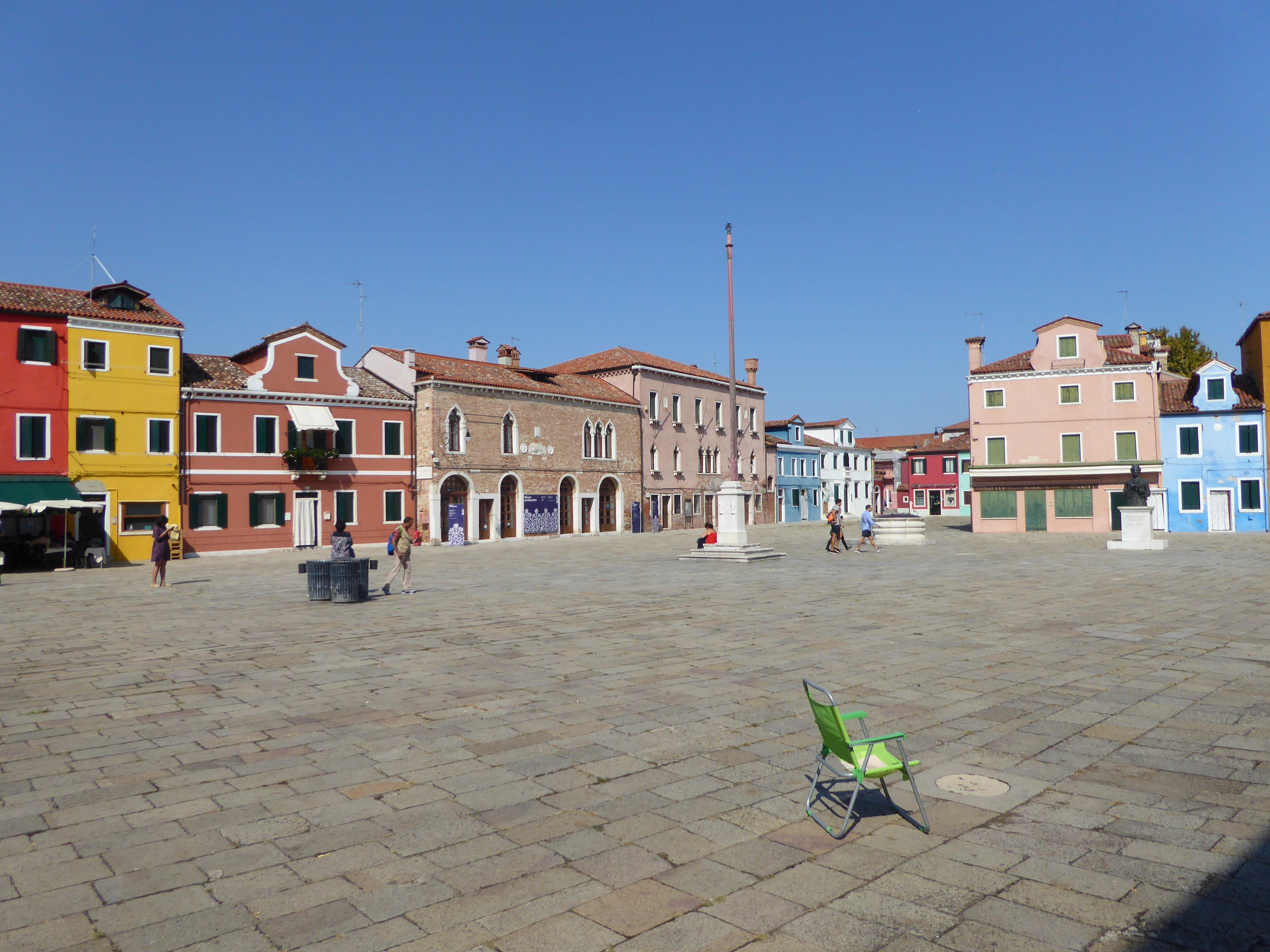 Piazza Galuppi, named for Baldassare Galuppi in Burano, Veneto.